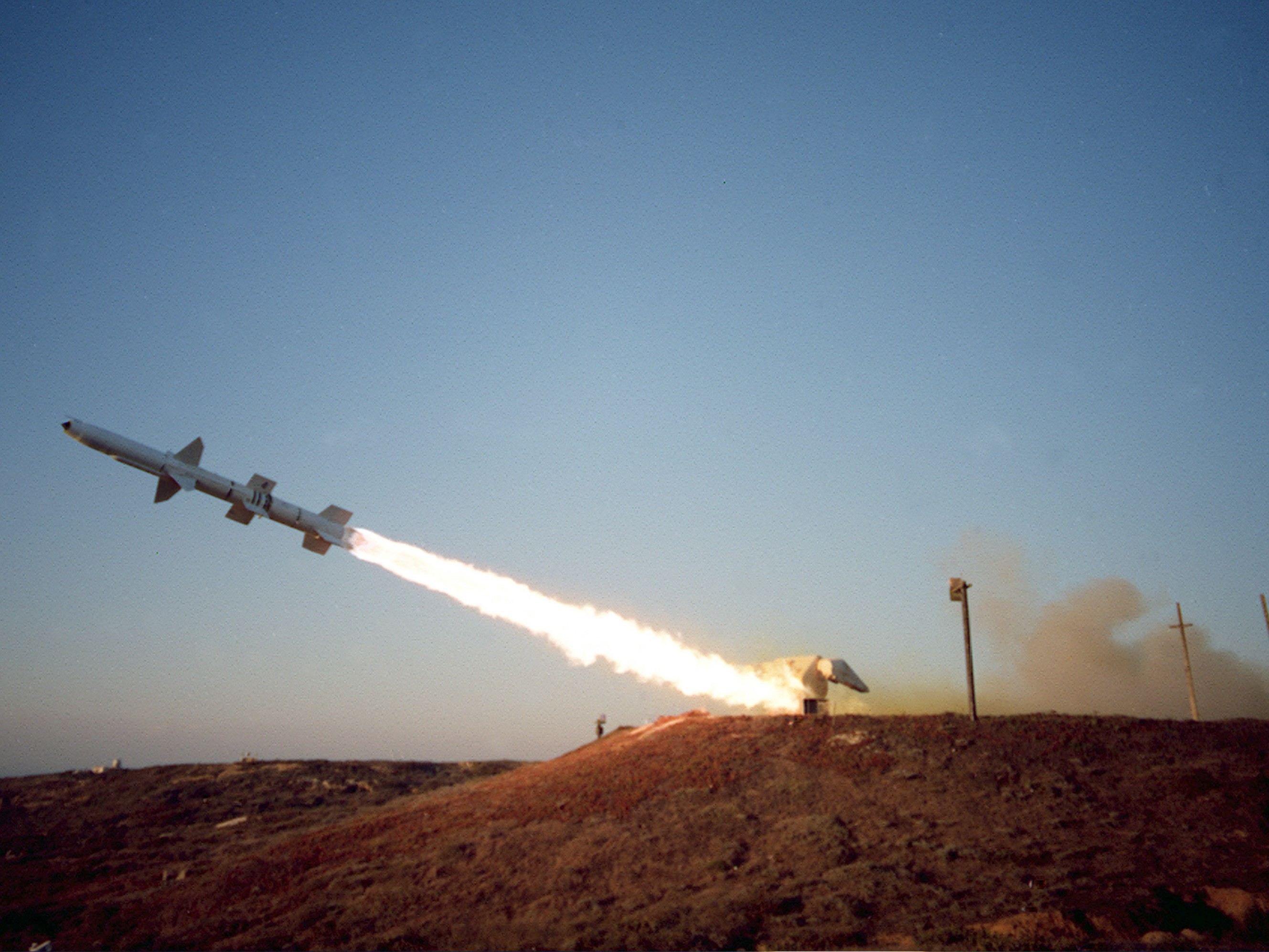 A U.S. Navy MQM-8G Vandal missile firing from San Nicolas Island, California (USA), in 1999. The Vandal was a version of the RIM-8 Talos missile, which was retired in 1979. The remaining Talos missiles were converted to MQM-8G supersonic targets, simulating anti-ship missiles.